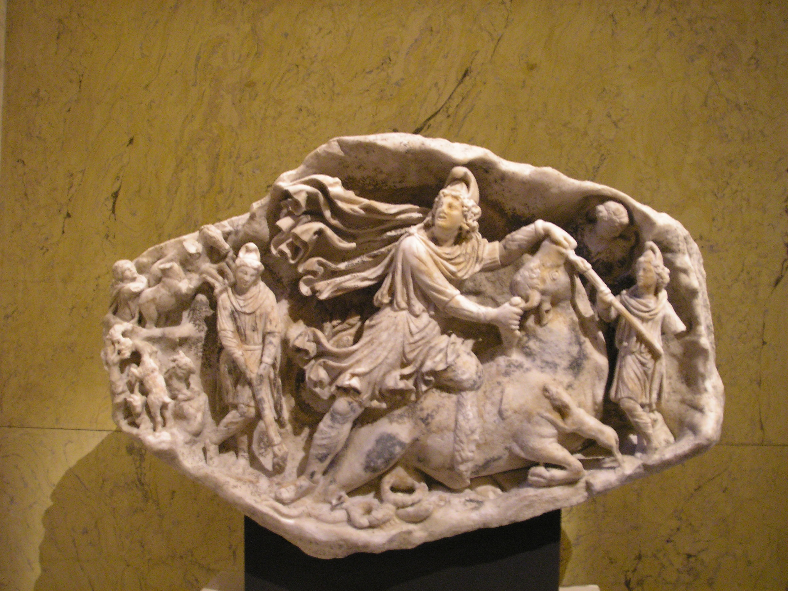 Ancient Roman marble relief of depicting the god Mithras, second half of the 2nd century CE. Located in the Collection of Greek and Roman Antiquities in the Kunsthistorisches Museum, Vienna. Originally from Aquilea in Italy. Inv.# 1624. The relief depicts the sacrifice of a bull.